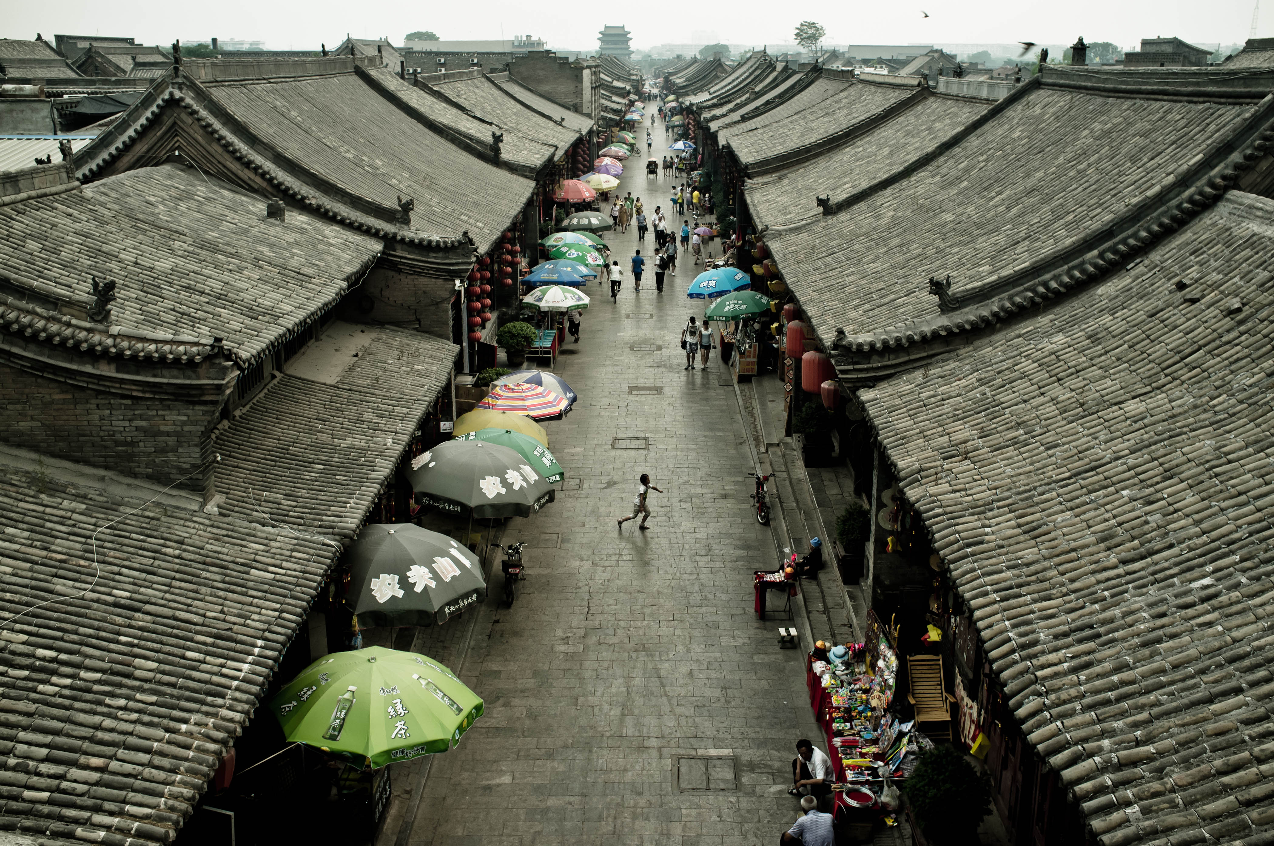 View from Market Tower